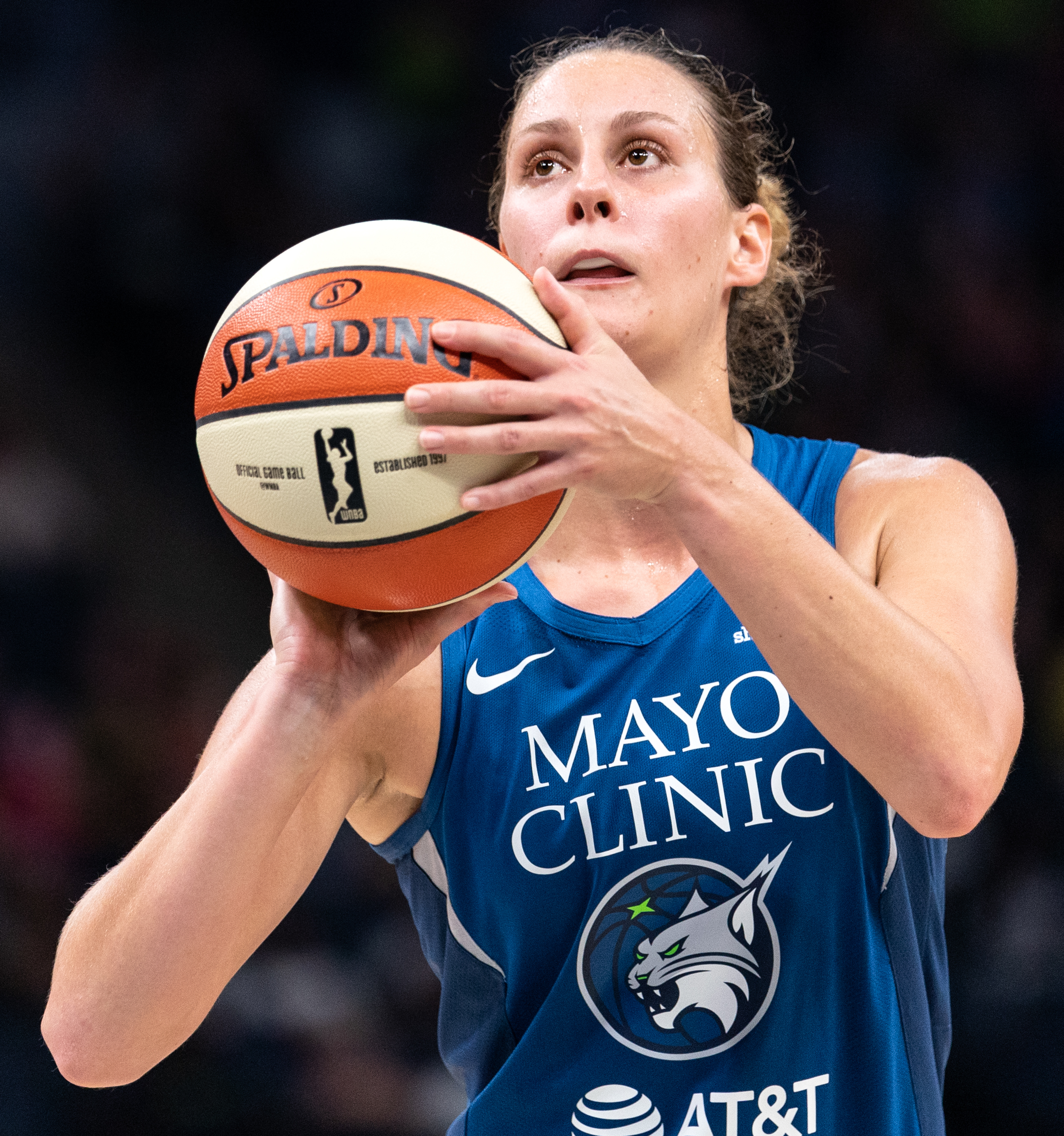 Minnesota Lynx vs Phoenix Mercury at Target Center in Minneapolis, MN on July 14 2019; the Lynx won the game 75-62.